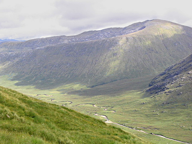 Glen and River Kingie Viewed from the southern slopes of Sgurr an Fhuarain. Beyond the meandering river is the Kinbreack bothy, a very remote place! Sgurr Mhurlagain is the mountain.